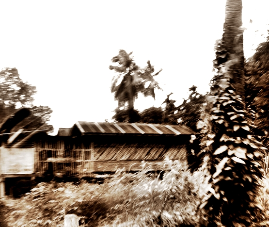 ancient house is Thai pattern of Thai construction of common houses without the gable in Ban Pa Kanun, Khung Taphao subdistrict, Mueang Uttaradit, Uttaradit Province, Thailand.